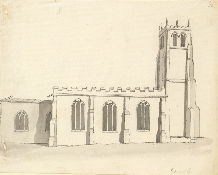 Gresley Church, Derbyshire, seen from the north